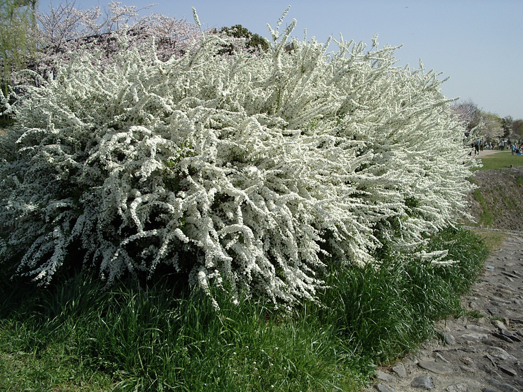 Spiraea thunbergii. Photo taken at the bank of Kamo river, Kyoto, Japan. ユキヤナギの花。京都市の鴨川の川岸で撮影。